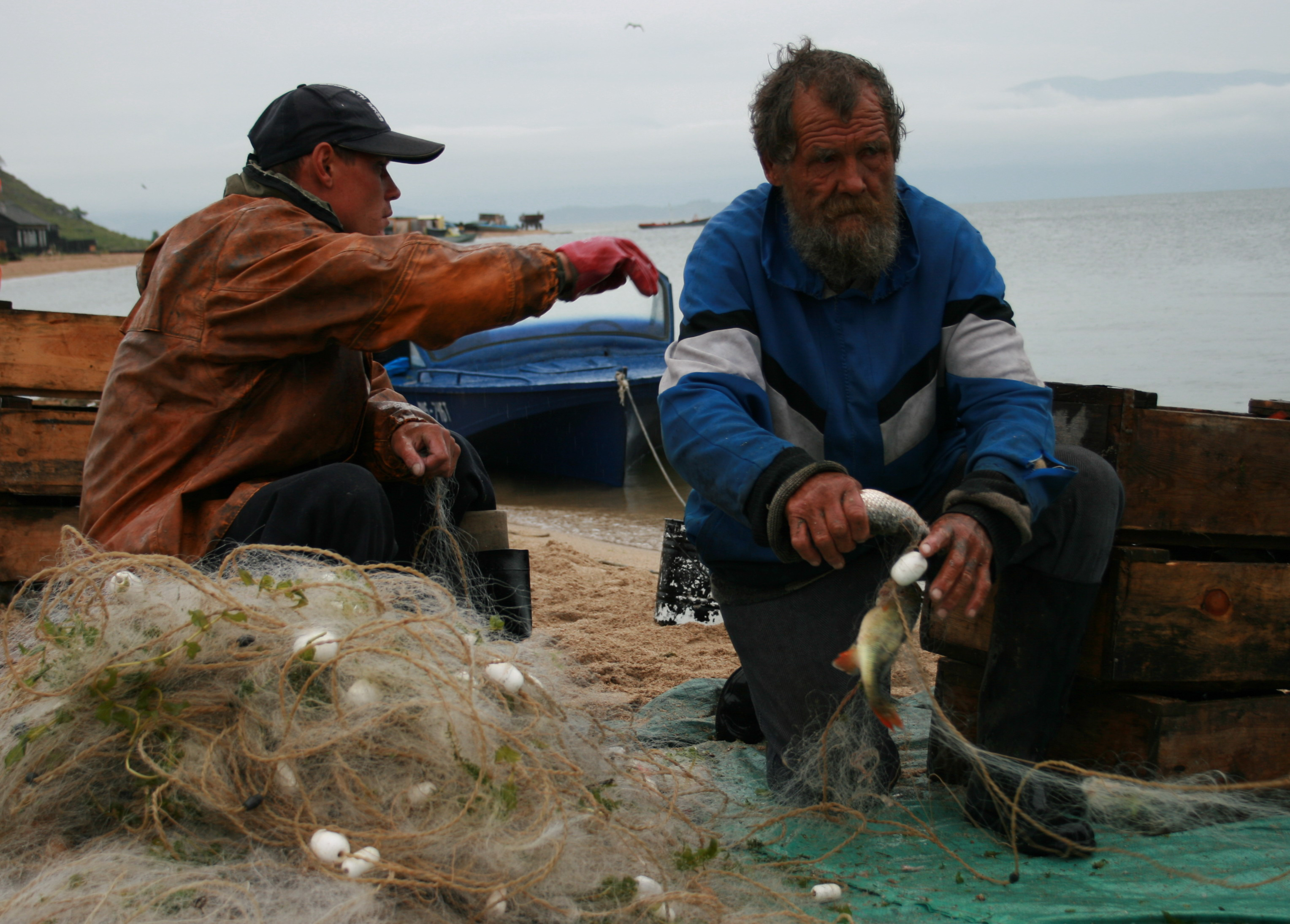 Fishermen in the Katun. Lake Baikal, Chivyrkuisky bay. Buryatia